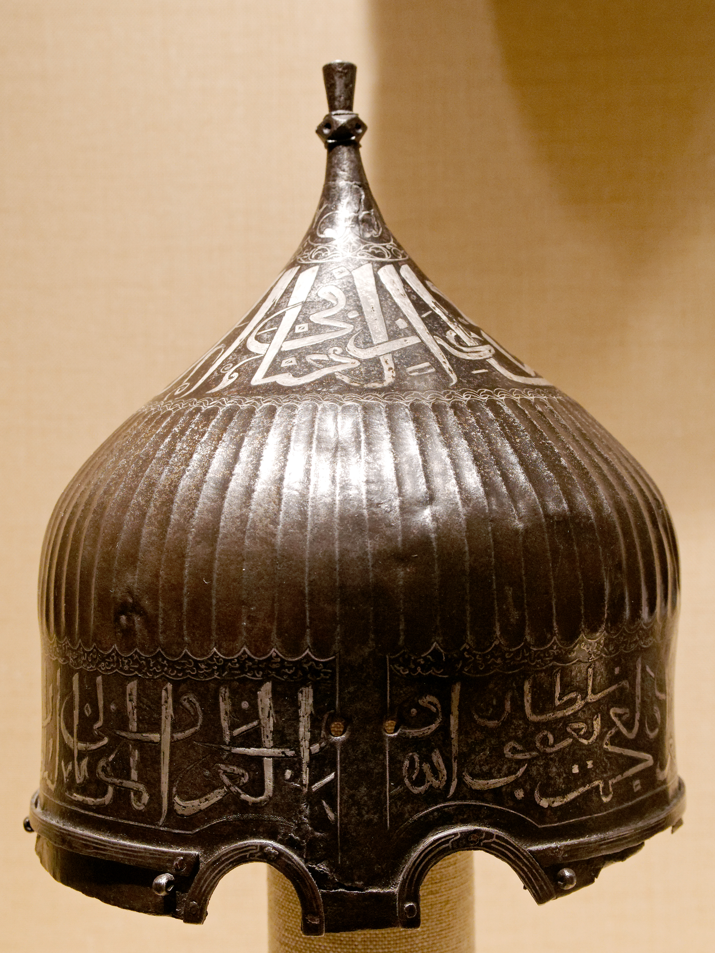 Turban helmet inscribed to the name of sultan Ya'qub of the Ak-Koyunlu (White Sheep Turkoman).